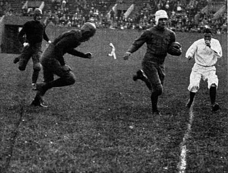 The University of Pittsburgh's Gibby Welch runs back a 105-yard kickoff return during the 1927 West Virginia game. Pitt won the game 40-0.